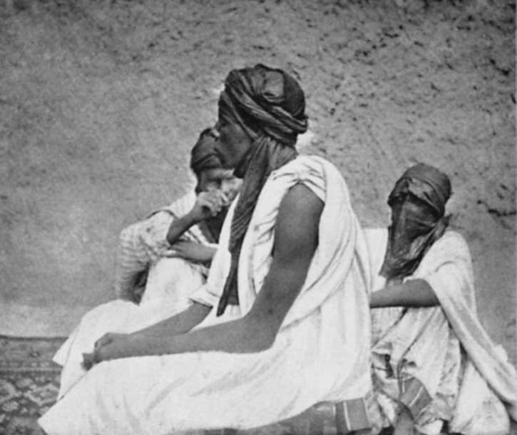 Fulahs_of_Sokoto